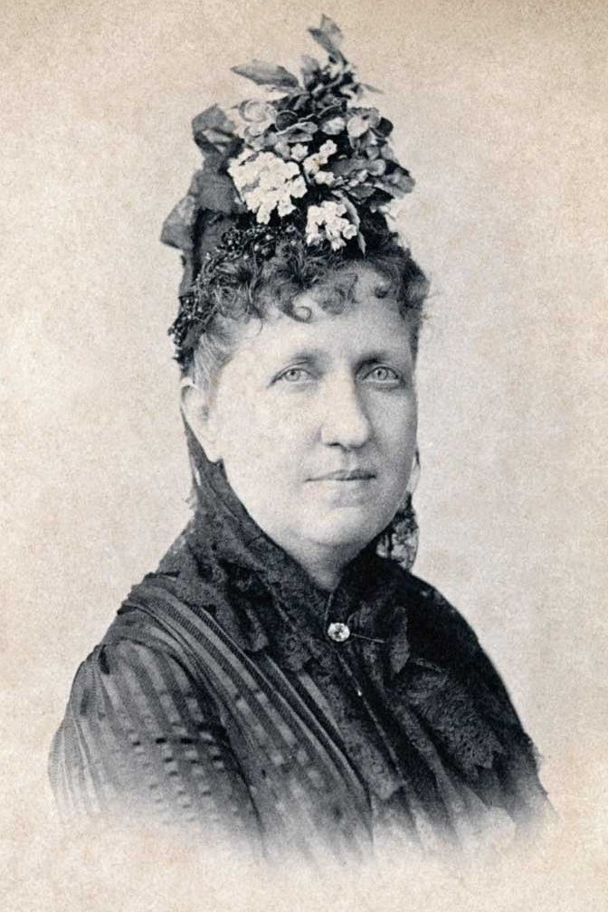 Isabel, Princess Imperial of Brazil, c.1887.